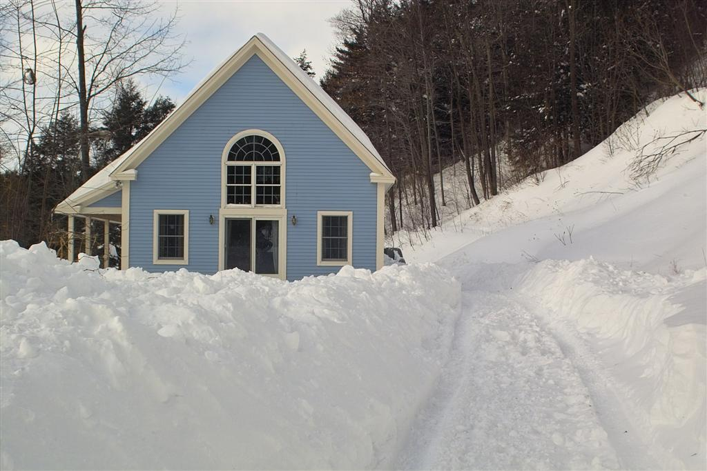 Monkton, Vermont. Image of snowfall from the February 14, 2007 blizzard that hit the Northeast U.S.